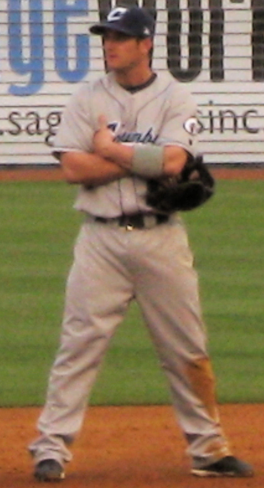 Wilson Valdez (left) and Andy Cannizaro (right) of the Columbus Clippers chat with a Durham Bulls baserunner during a 2009 game in Durham, North Carolina.